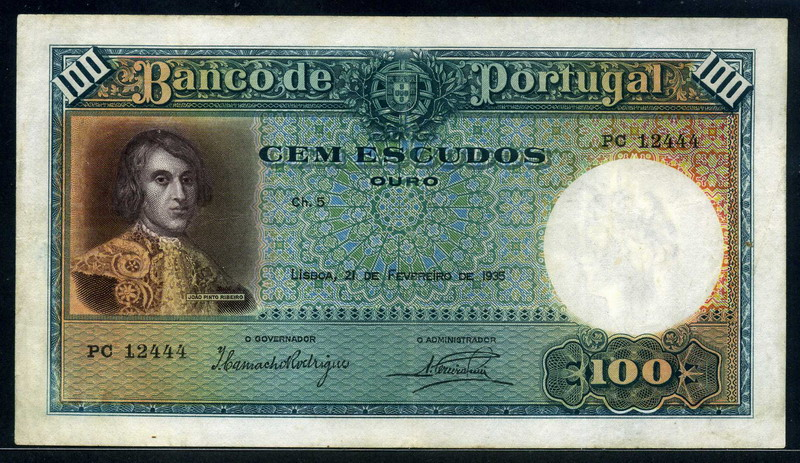 Portugal banknotes 100 Escudos banknote of 1935, João Pinto Ribeiro.